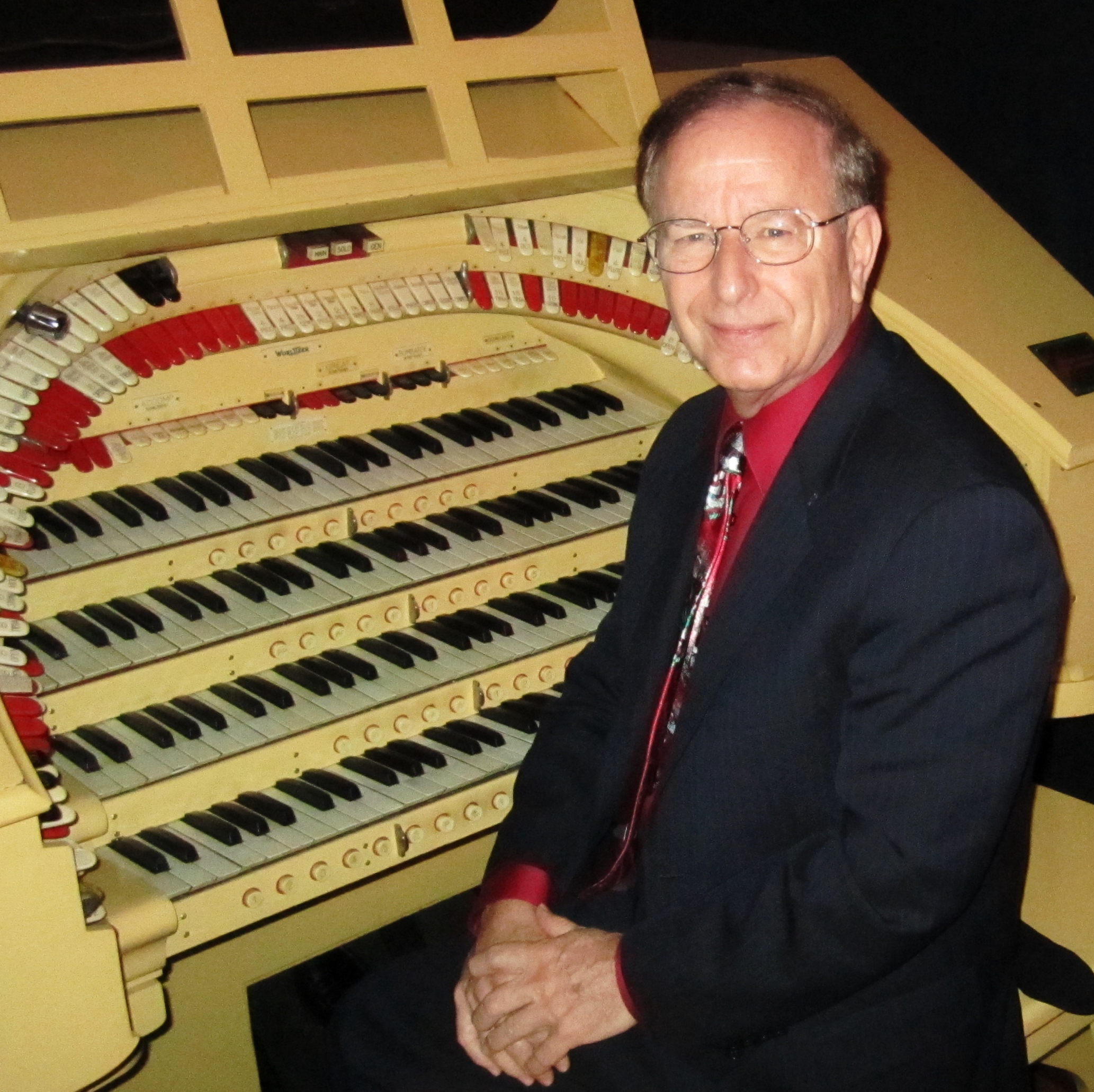 Harry Garland at the Castro Theatre Wurlitzer, San Francisco, California.